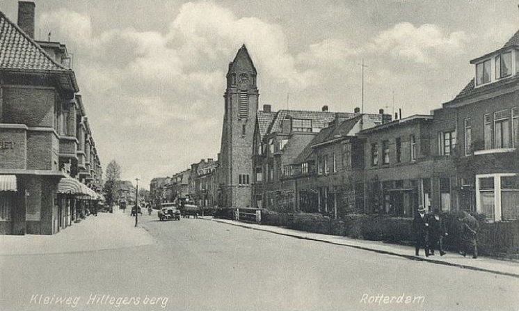 Kleiweg and Graaf Adolf van Nassaustraat (Statenlaan) in the Kleiwegkwartier Rotterdam 1931